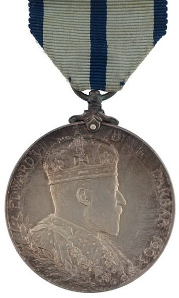 Delhi Durbar Medal 1903, obverse - commemorative medal